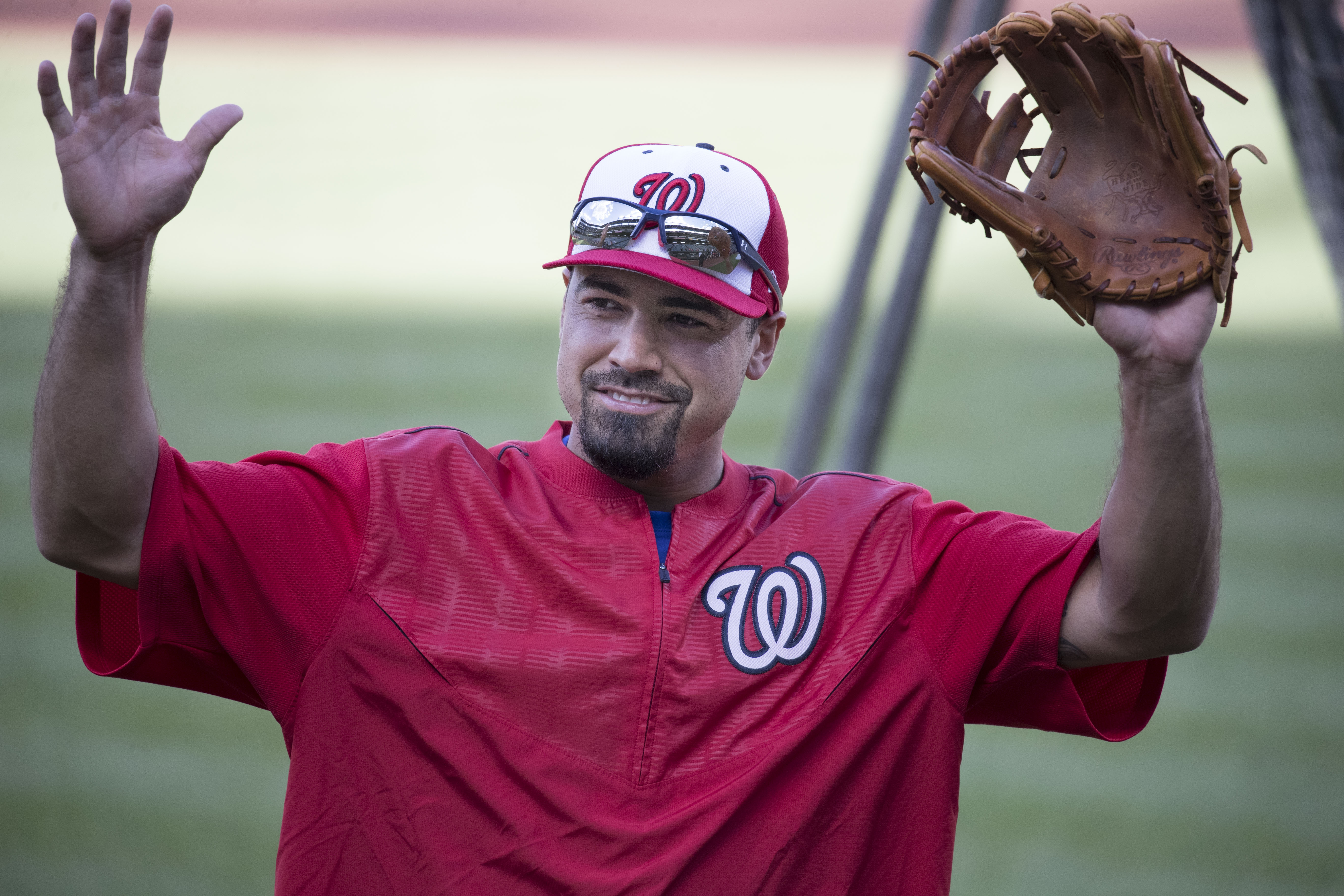 Nationals at Orioles 5/8/17